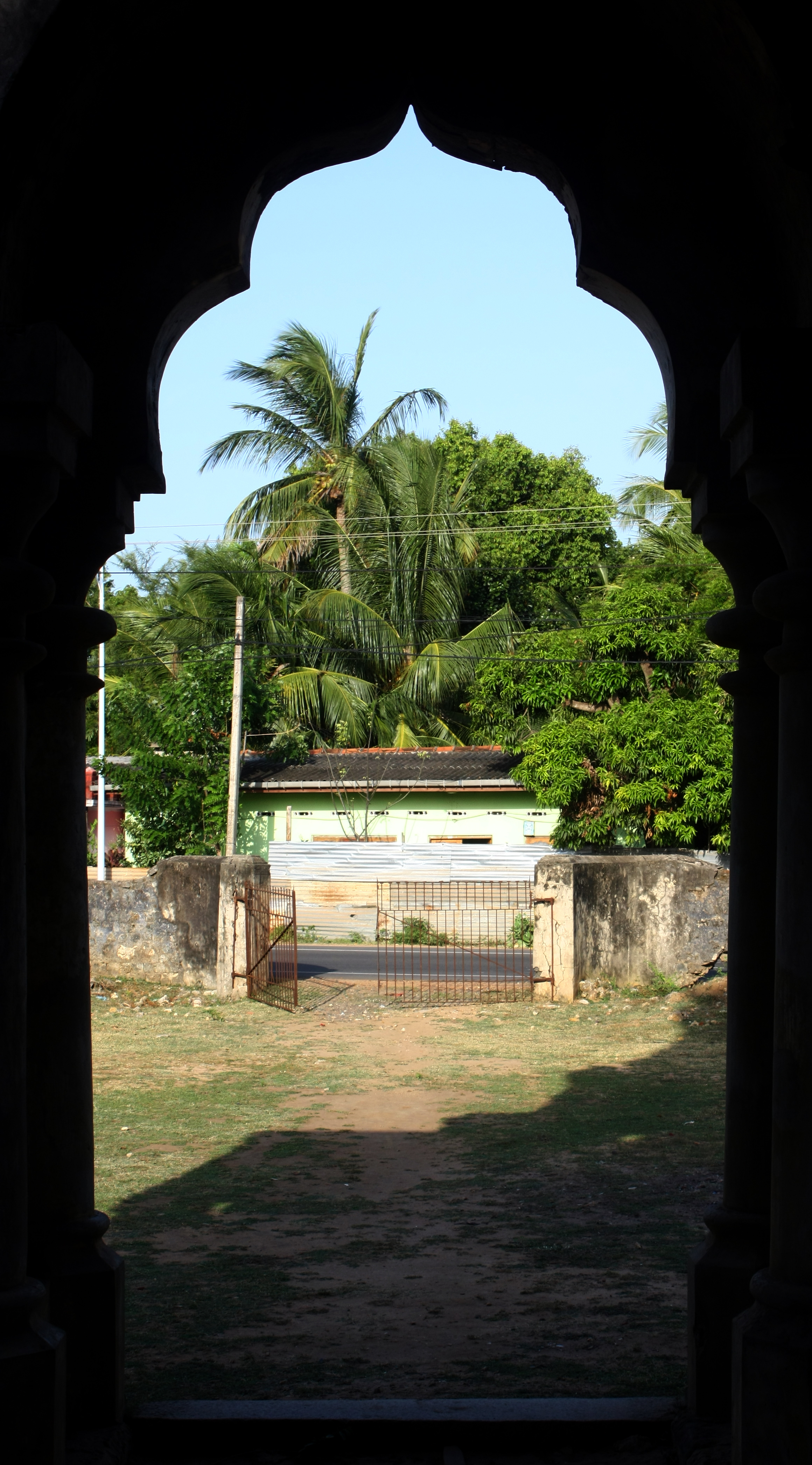 Indoor silhouette (Mantri Manai), Jaffna